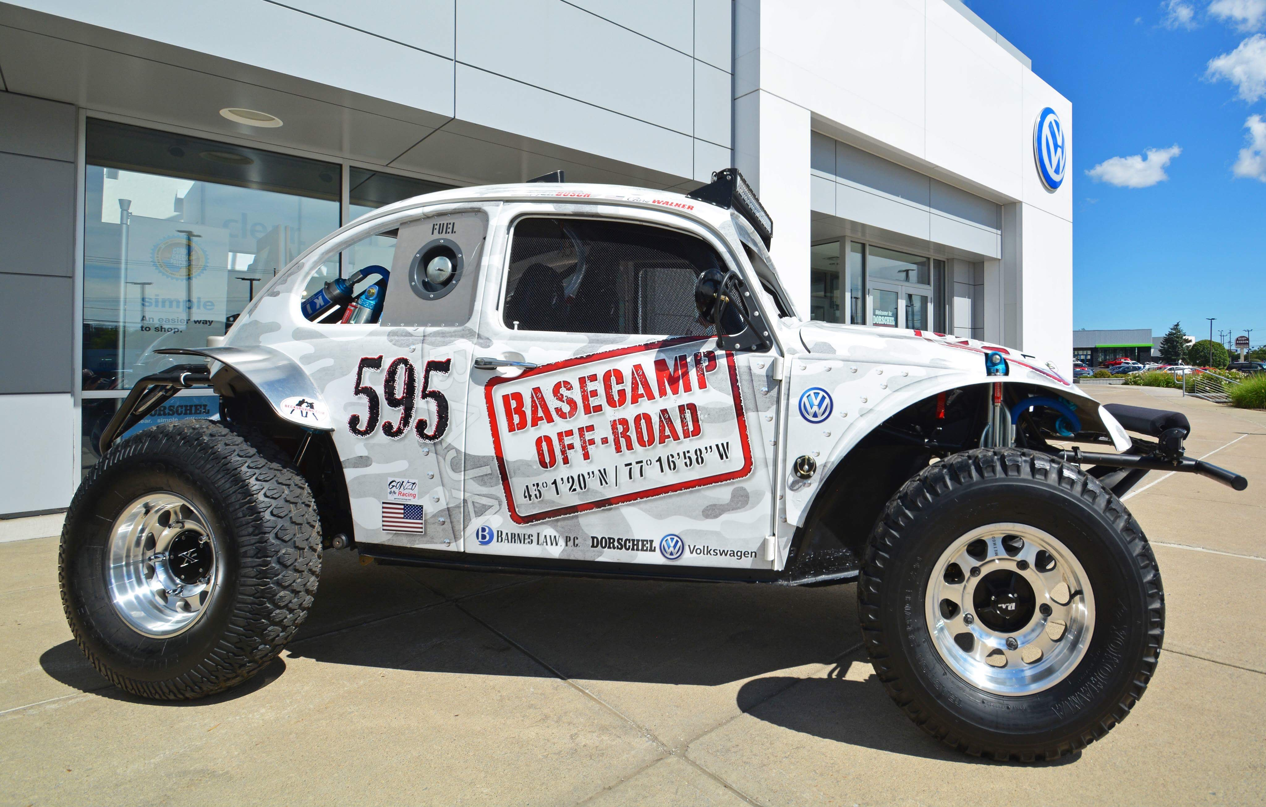 New York Baja 1000 5/1600 Car BASECAMP OFF-ROAD